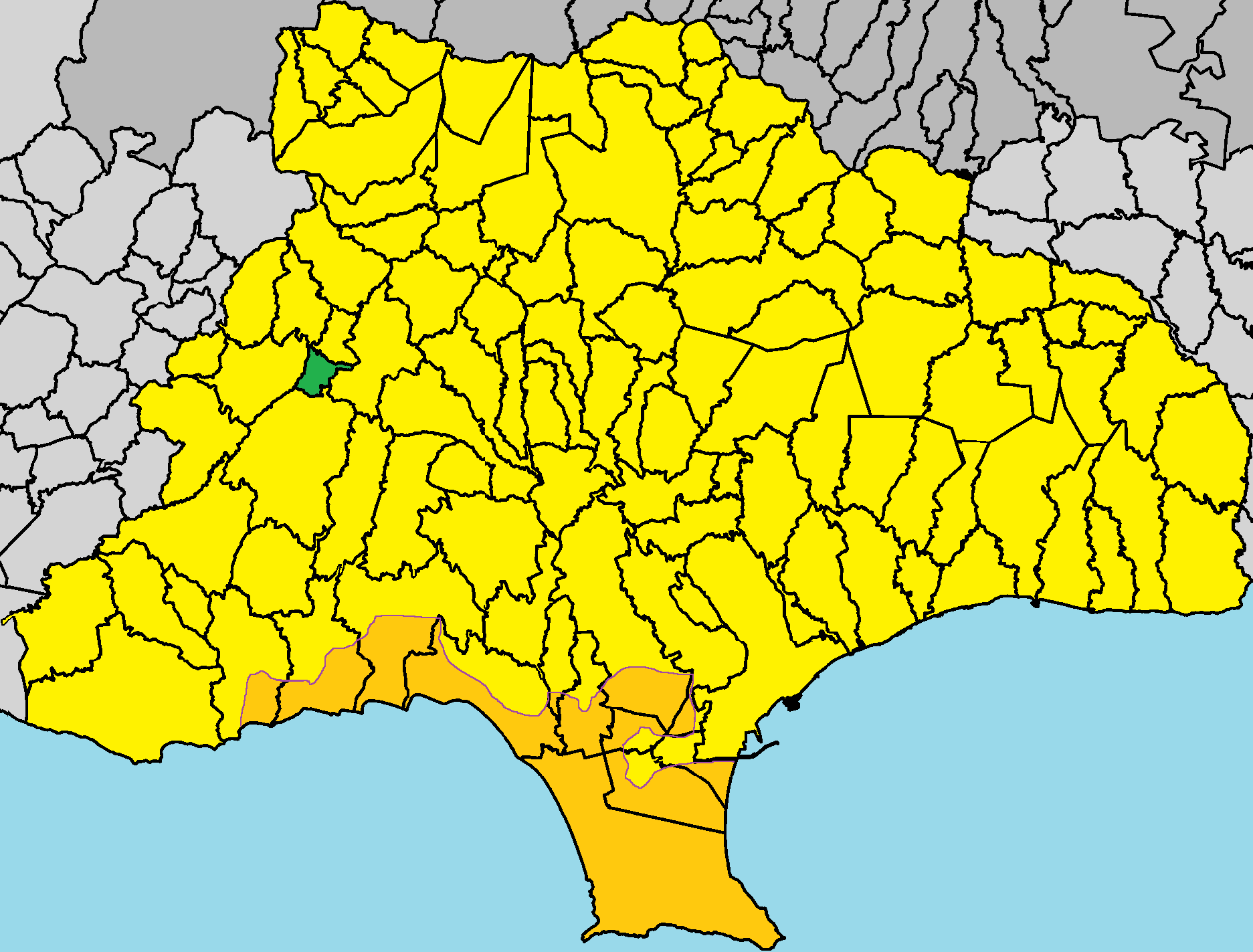 Kissousa in Limassol District.